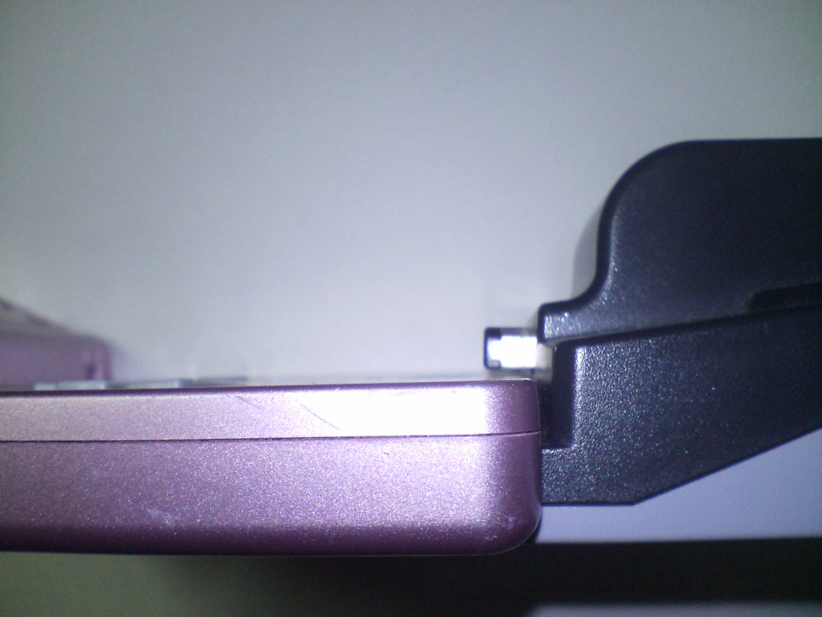 e-Reader attached to Game Boy Advance SP (Side view)